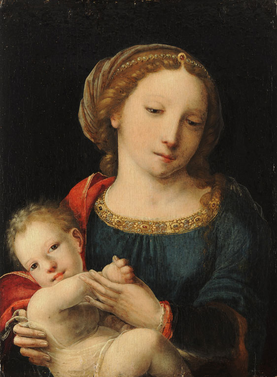 Master of the Parrot (Active in Antwerp in the first half of the 16th century) Virgin and Child Oil on panel 21 x 15.5 cm